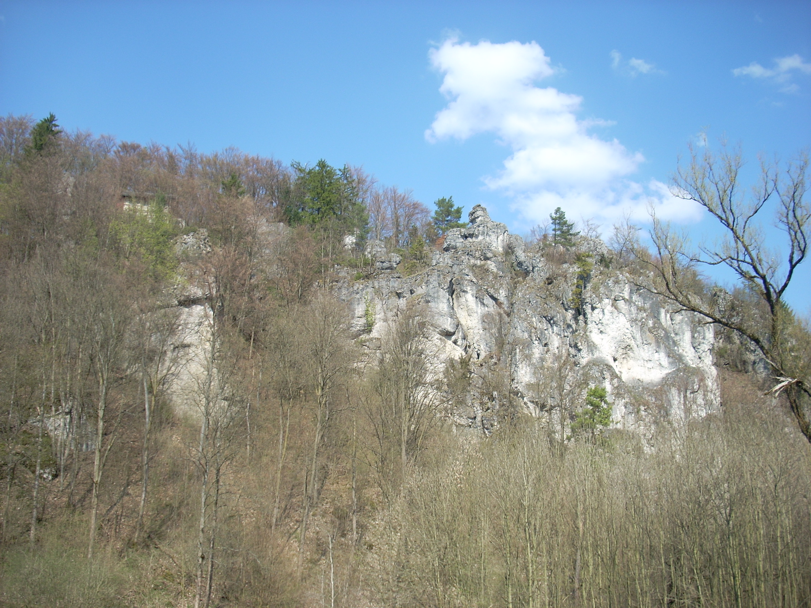 Rock "Brüchige Wand" near by Thuisbrunn